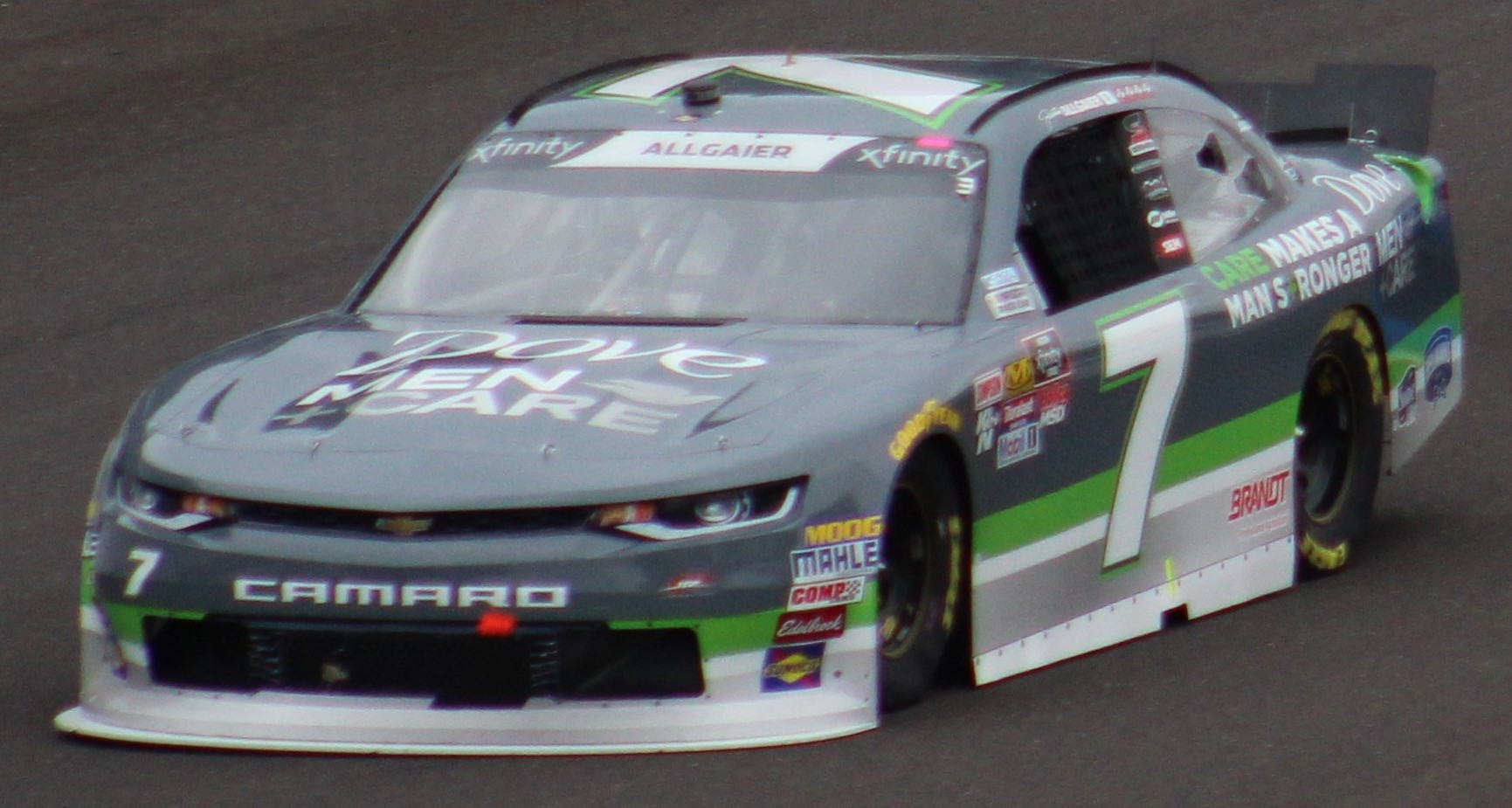 Justin Allgaier's No. 7 Dove Men+Care Chevrolet at Indianapolis Motor Speedway in 2018